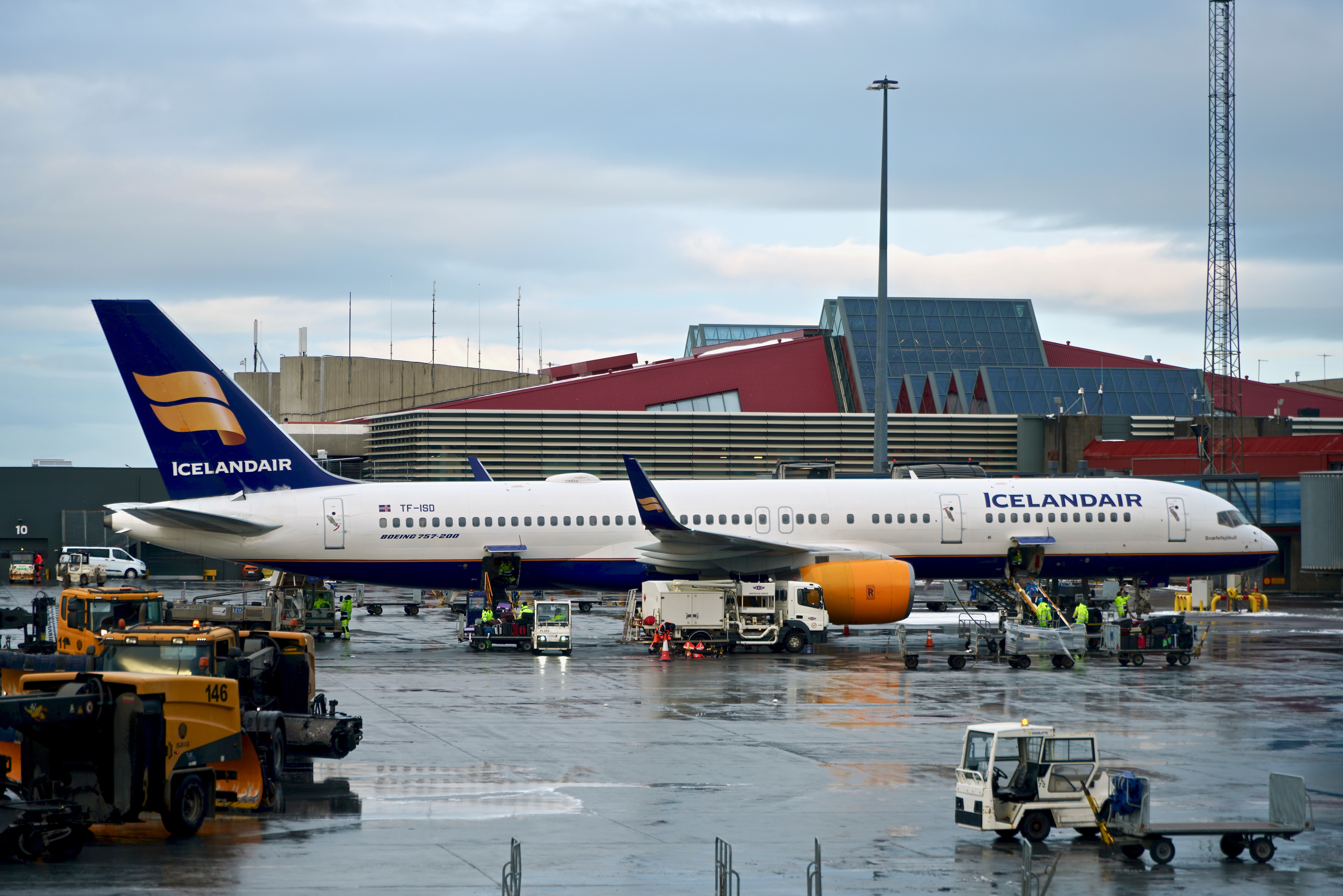 One of Icelandair's 757s in Reykjavik